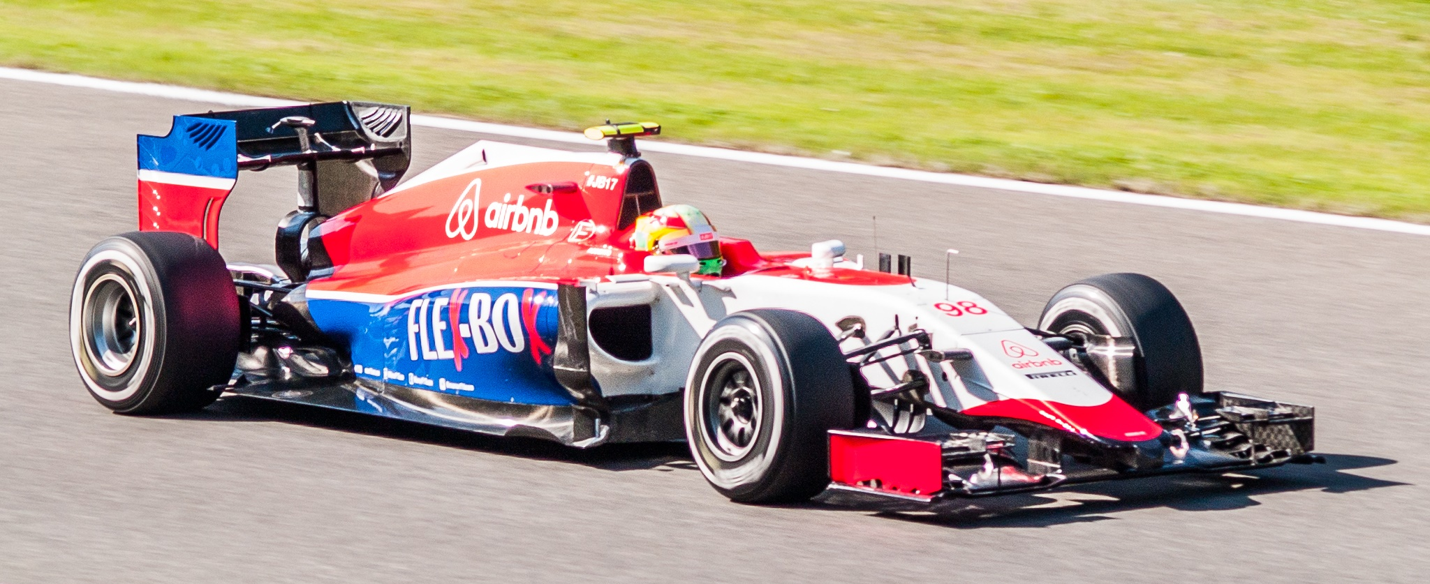 Roberto Merhi (Manor Marussia F1 Team) at the 2015 Belgian Grand Prix